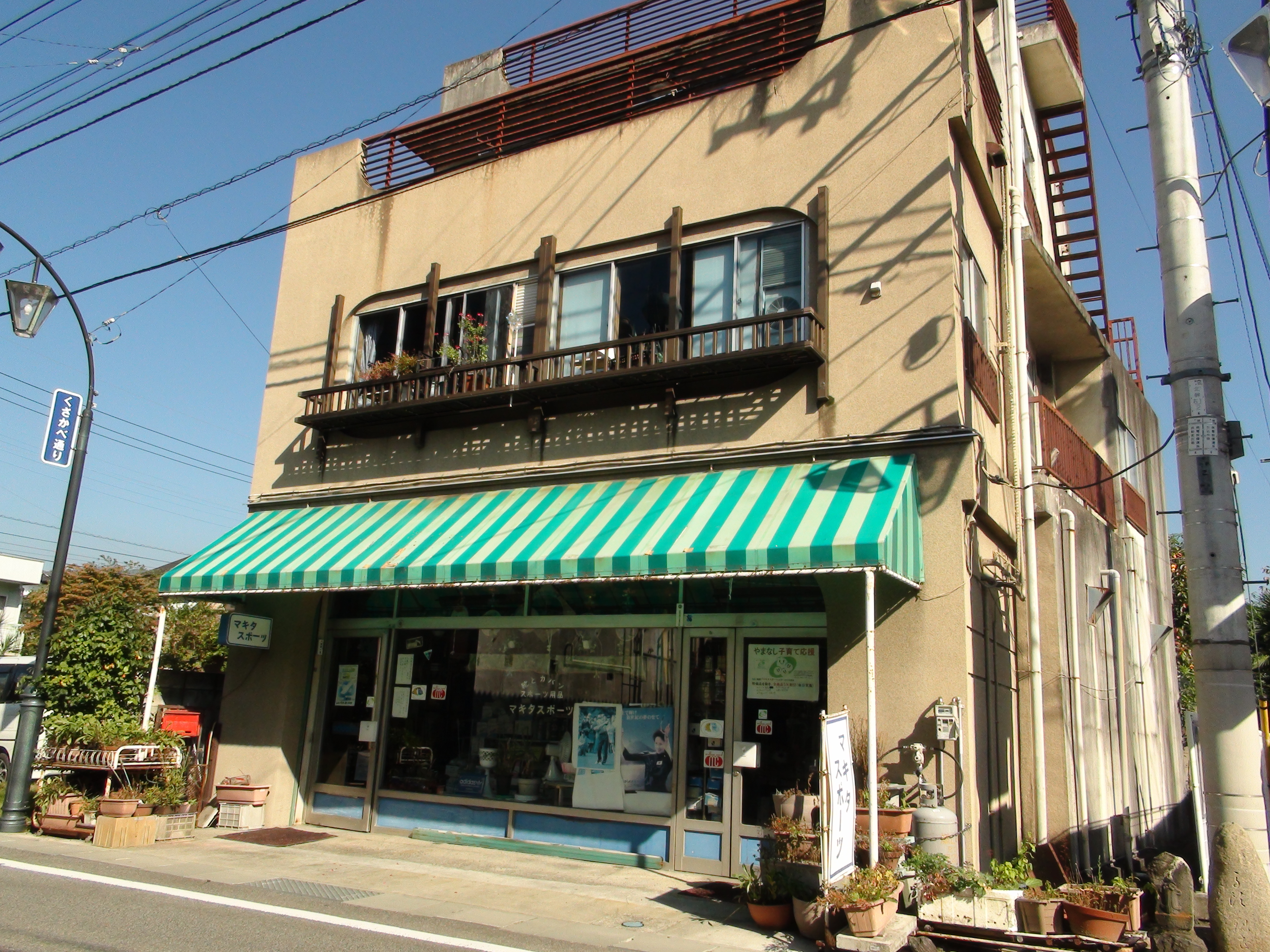 Makita sporting goods store